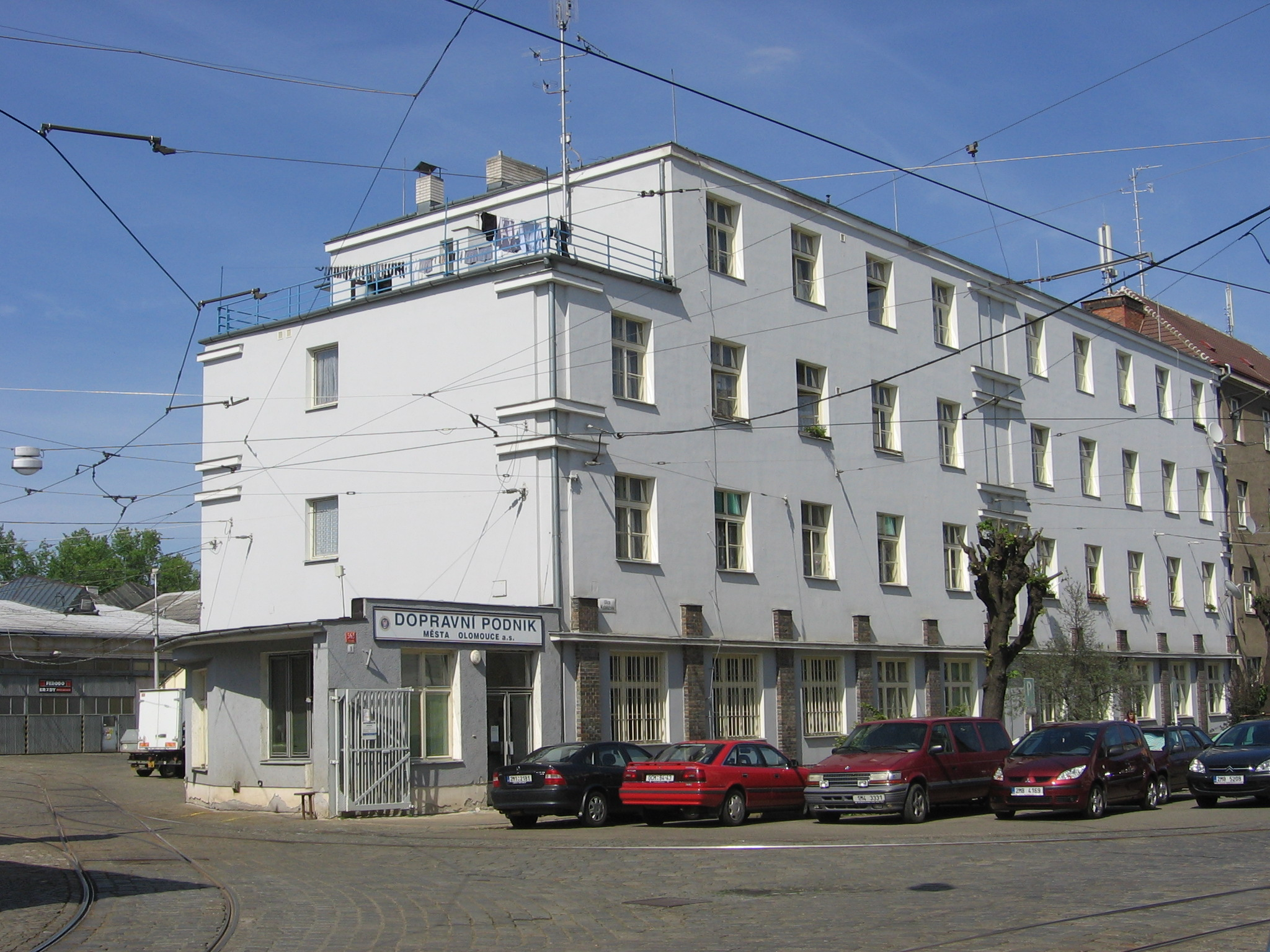 Building of the Olomouc Transport Company Headquarters (Czech Republic)